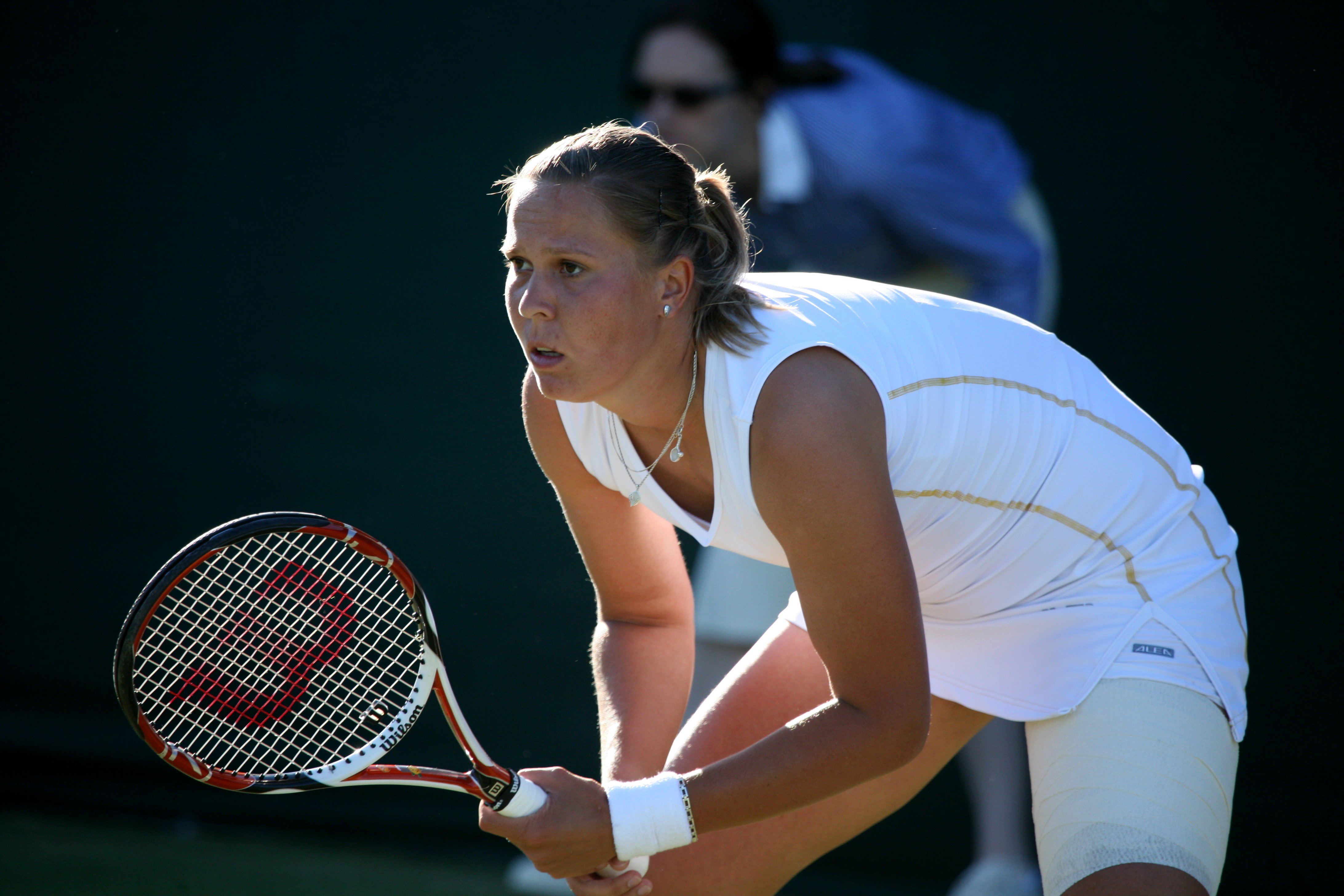 Lucie Hradecká against Ana Ivanović in the 2009 Wimbledon Championships first round